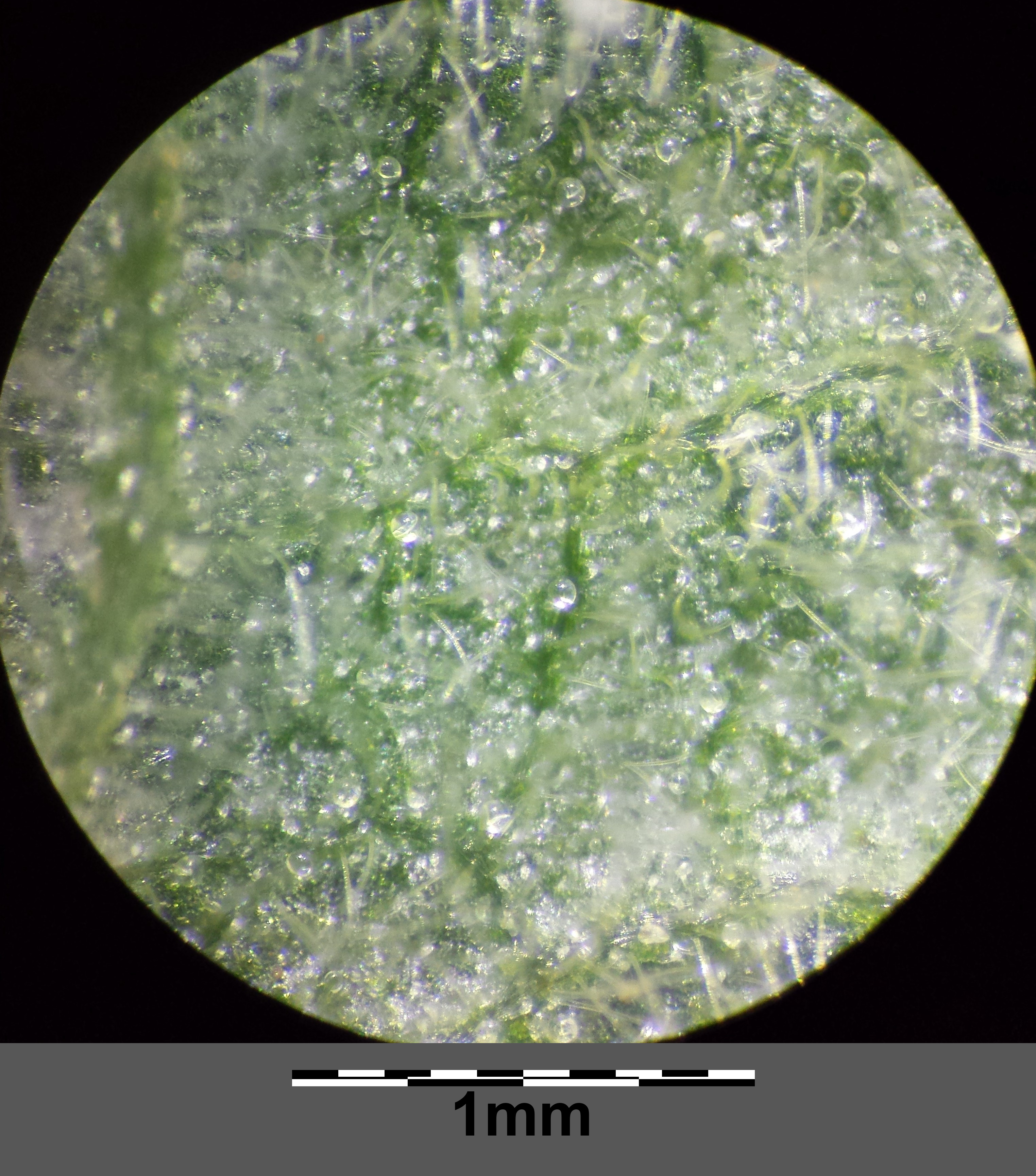 Sparsely hairy bottom side of leaf with glands Taxonym: Agrimonia procera ss Fischer et al. EfÖLS 2008 ISBN 978-3-85474-187-9 Location: Aspenwald near Zurndorf, district Neusiedl am See, Burgenland, Austria - ca. 130 m a.s.l. Habitat: border of a wood